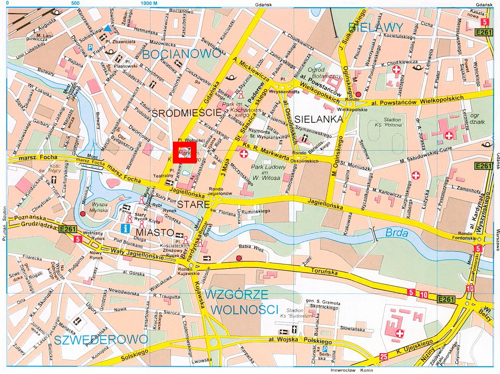 Gallery location in Bydgoszcz